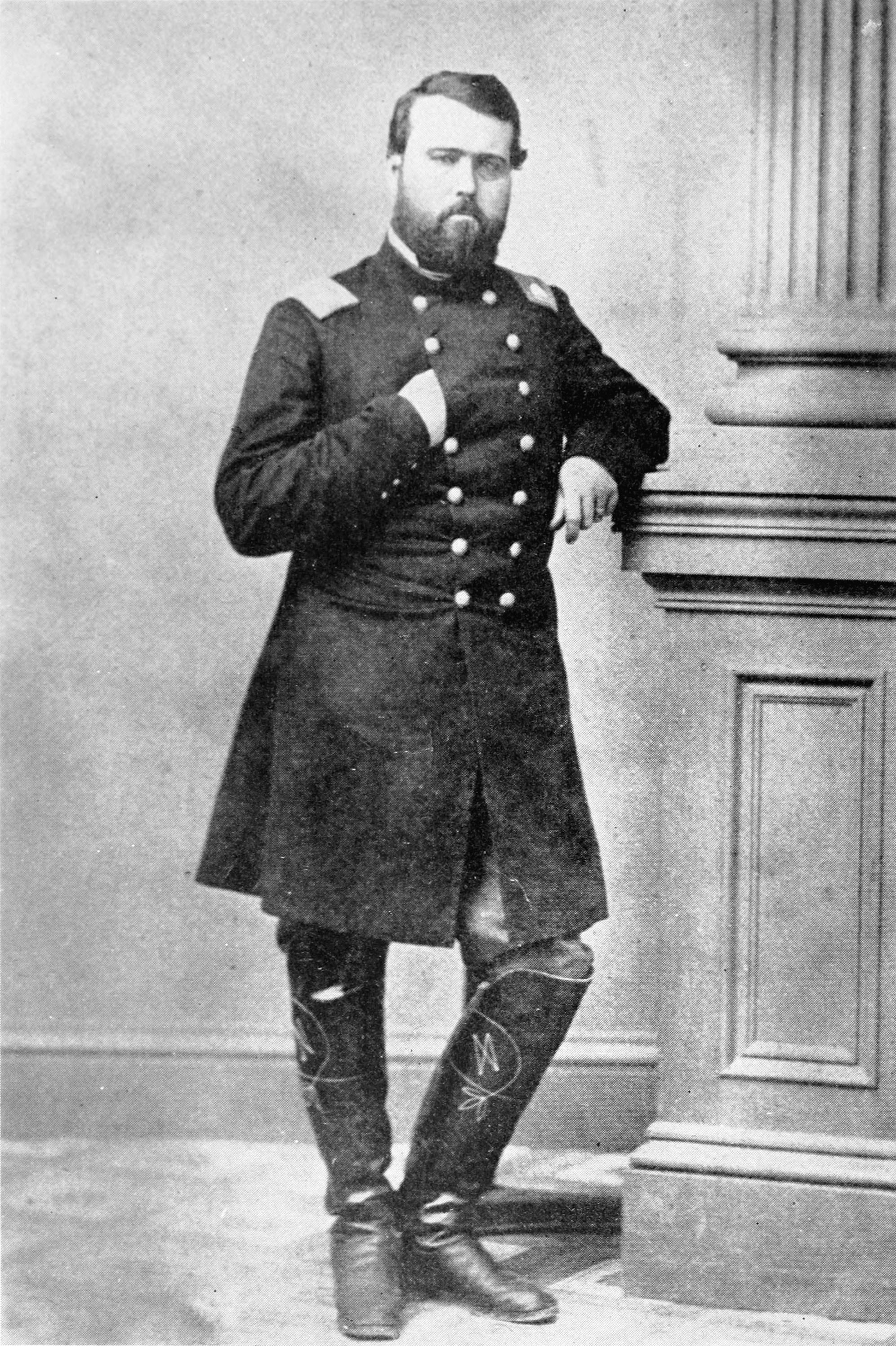 Portrait of Union Army brigadier general Francis M. Drake (1830-1903) as brigadier general